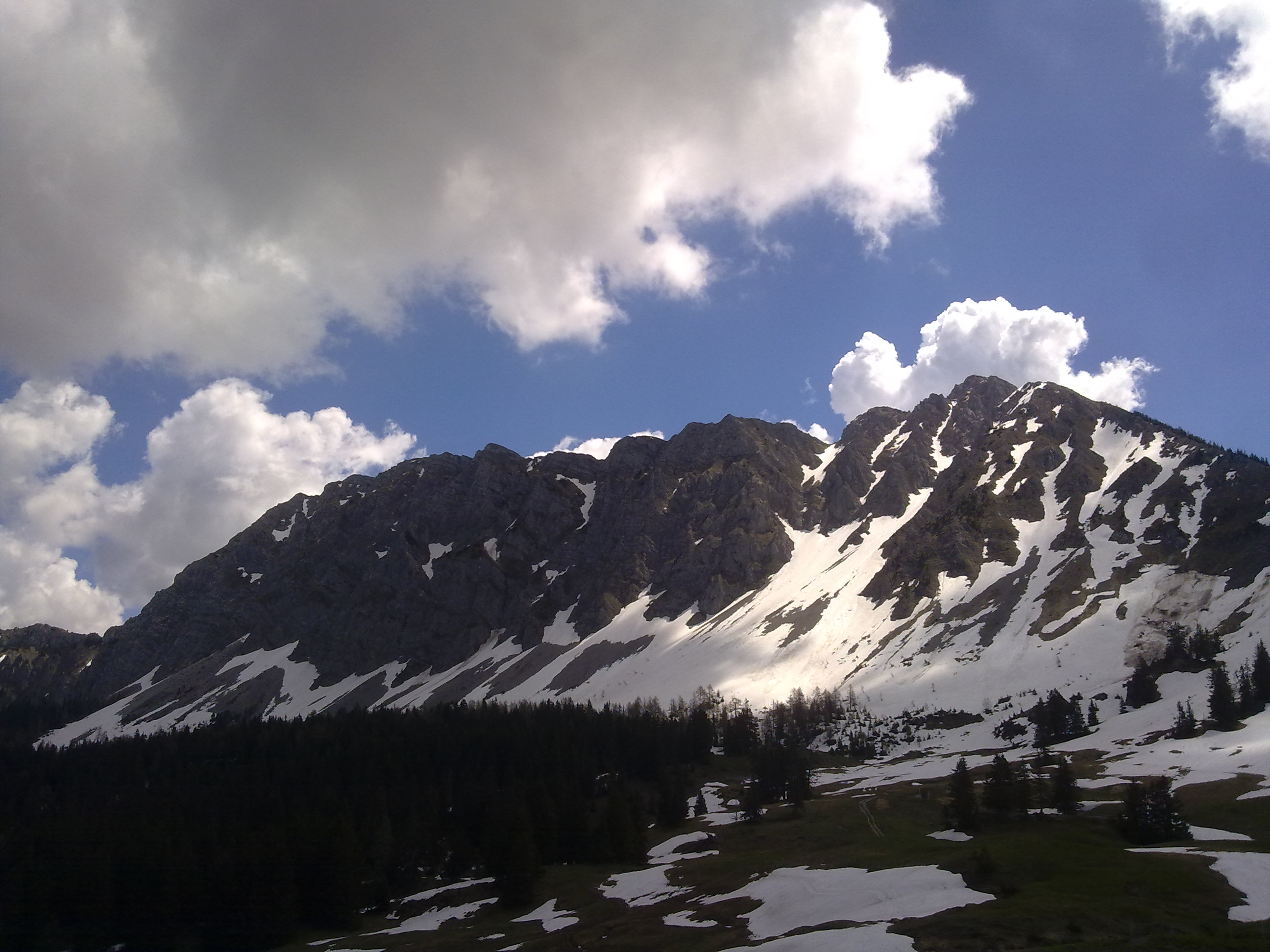 Gros Van from Pierre du Moëllé